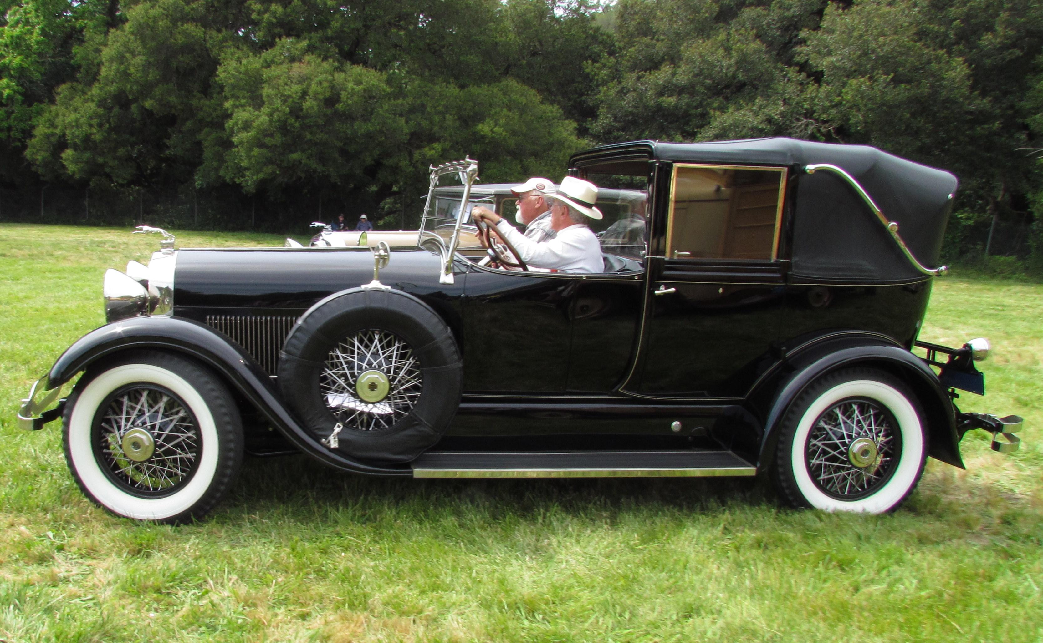 1928 Lincoln Holbrook Fully-Collapsible Cabriolet